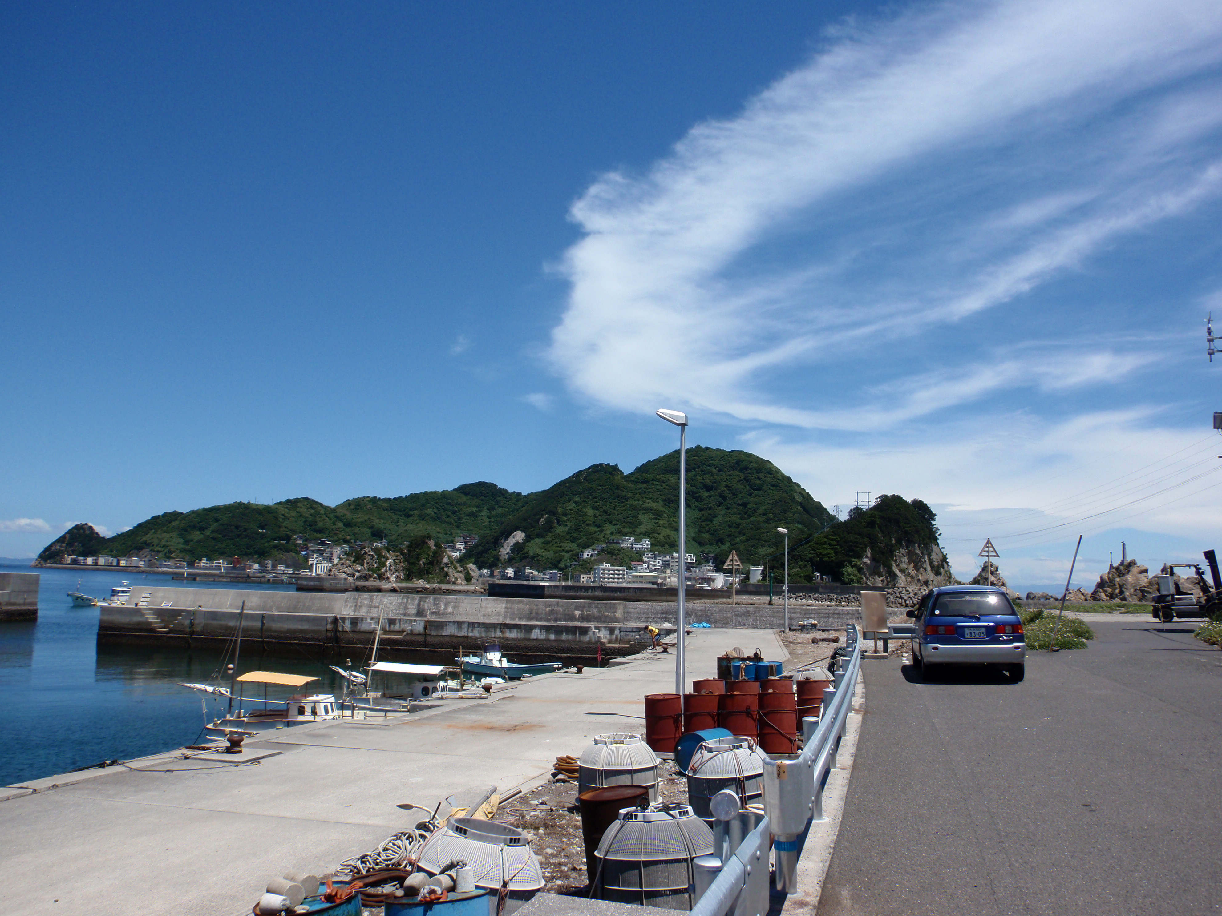 End of prefectoral road 611 (in Ohita)